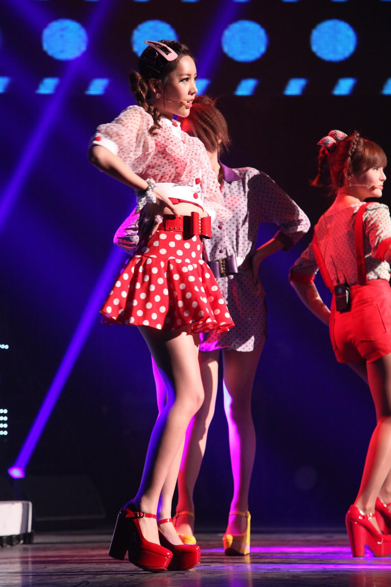 티아라 @ Cyworld Dream Music Festival 싸이월드 드림 뮤직 페스티벌 10